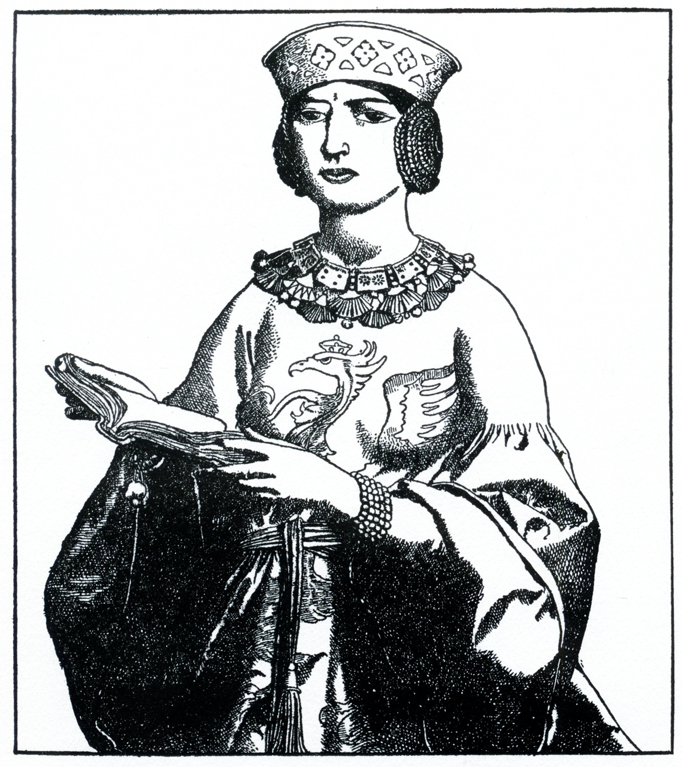 Howard Pyle illustration from the 1903 edition of The Story of King Arthur and His Knights scanned and archived at where it was marked as Public Domain.